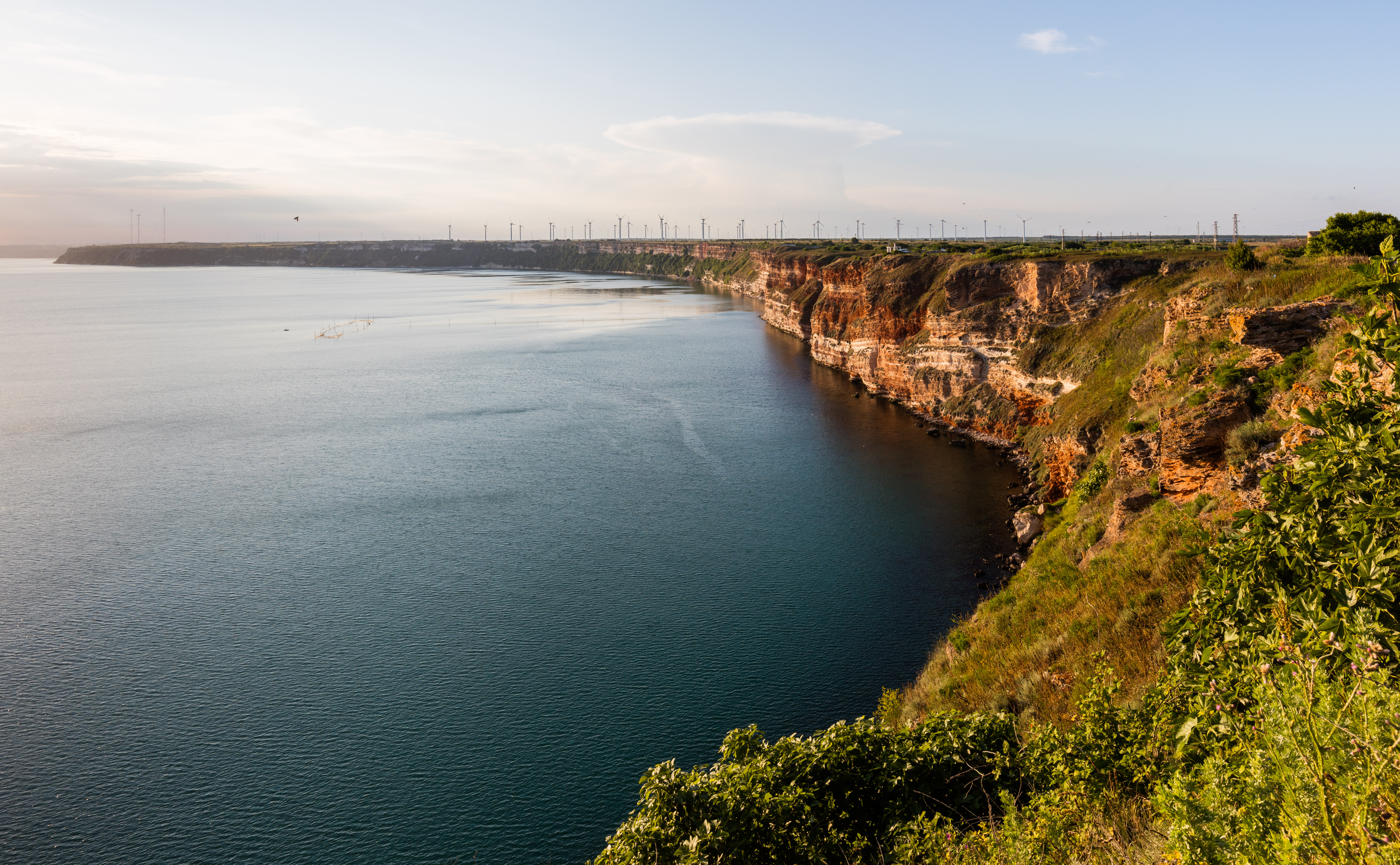 Cape of Kaliakra, Dobrich province, Bulgaria